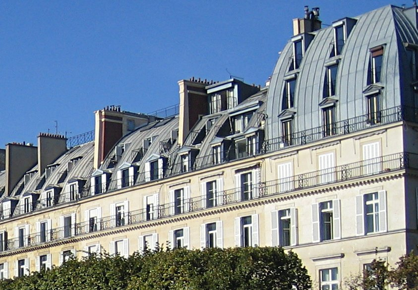 Rue de Rivoli, Paris, France. Used to show how the regulations allowed for more height above the cornice (see [1]. Photo taken by User:Thbz.